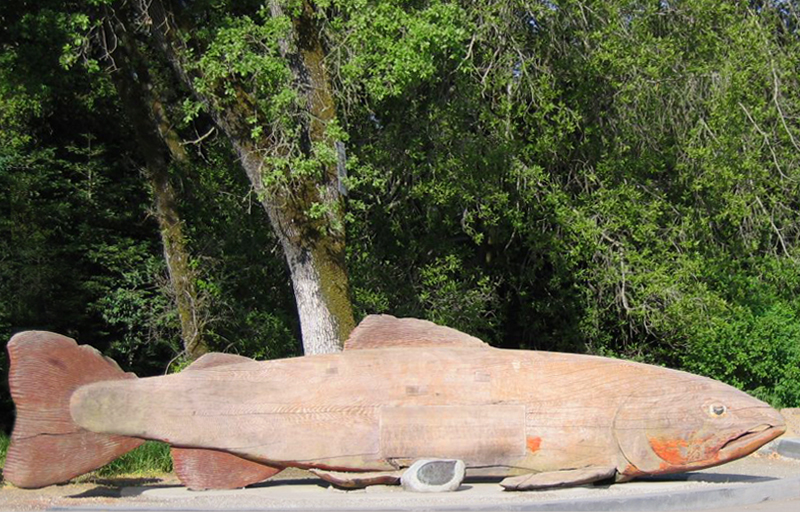 A carving by Floyd Davis of the Indomitable Salmon, originally installed at Humboldt County's Prairie Creek Fish Hatchery in 1974 after fundraising efforts by former San Francisco 49er Ed Henke. The original rotted away and a copy was made without seeing the original which was later sold to the Arcata Co-op Grocery Store by the Humboldt County Supervisors and is currently outside Buck's of Woodside restaurant in Woodside, San Mateo County, California. The original dedication marker read "As a lasting tribute to the never ending struggle within nature for the survival of the species… This replica of the Indomitable salmon was presented to Humboldt County and its Prairie Creek Fish Hatchery on March 5, 1974, by the following as a symbol of the interdependence and common spirit that binds man to nature and all living things."